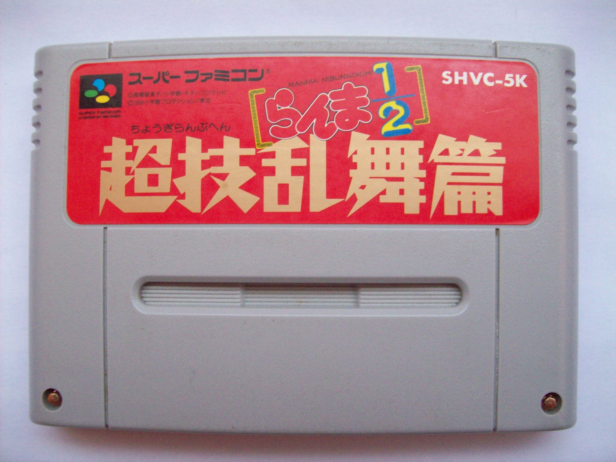 Video-game of Ranma 1/2 : Chougi Ranbu Hen (also Chougi Rambuhen).